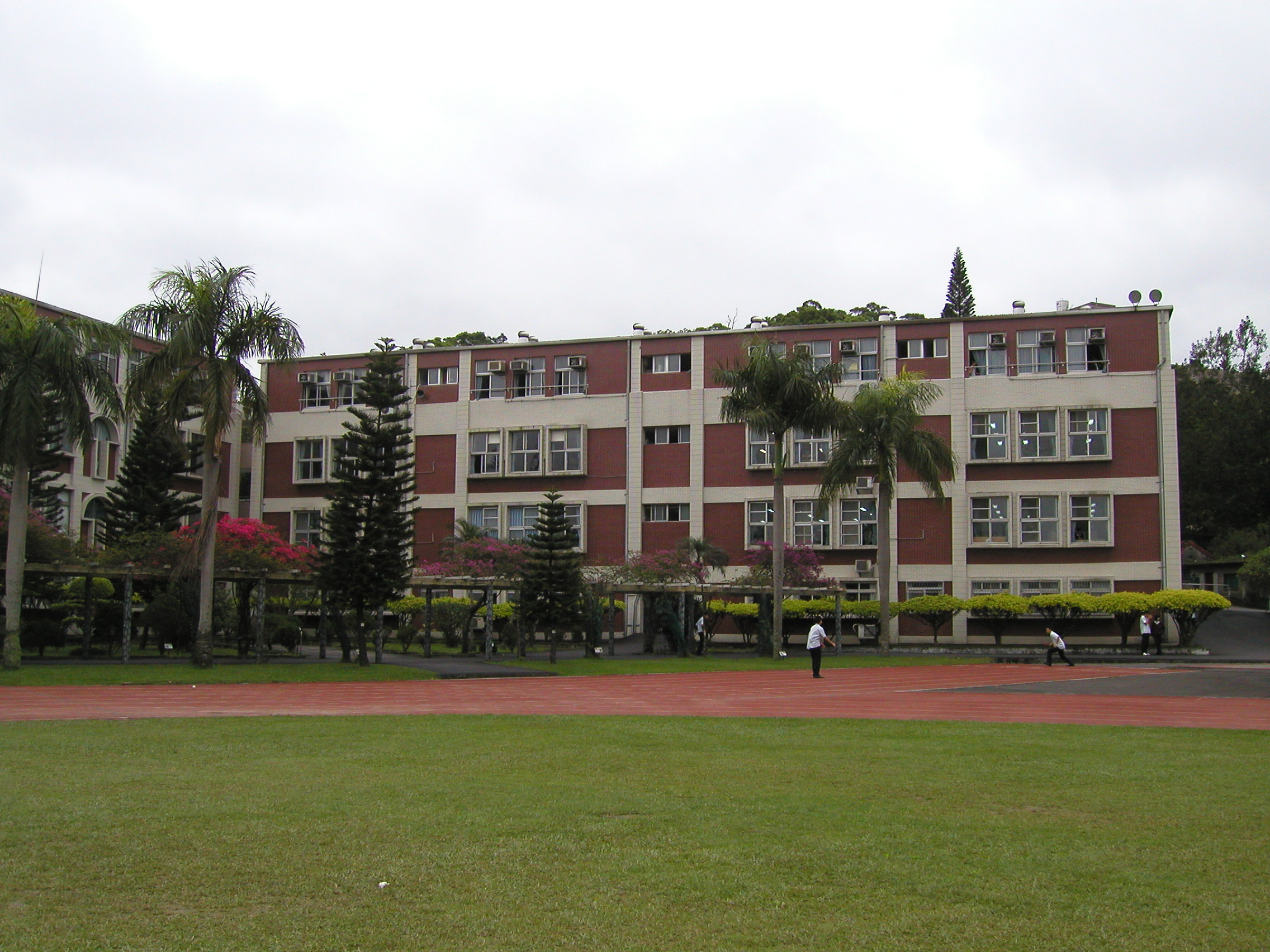 Senior High Department Academic Building